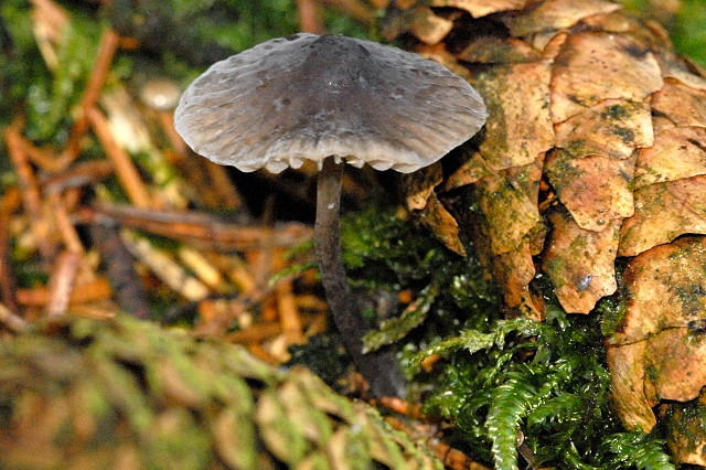 Mycena galopus var. nigra from Commanster, Belgium. The determination of the species shown in this picture has been verified.